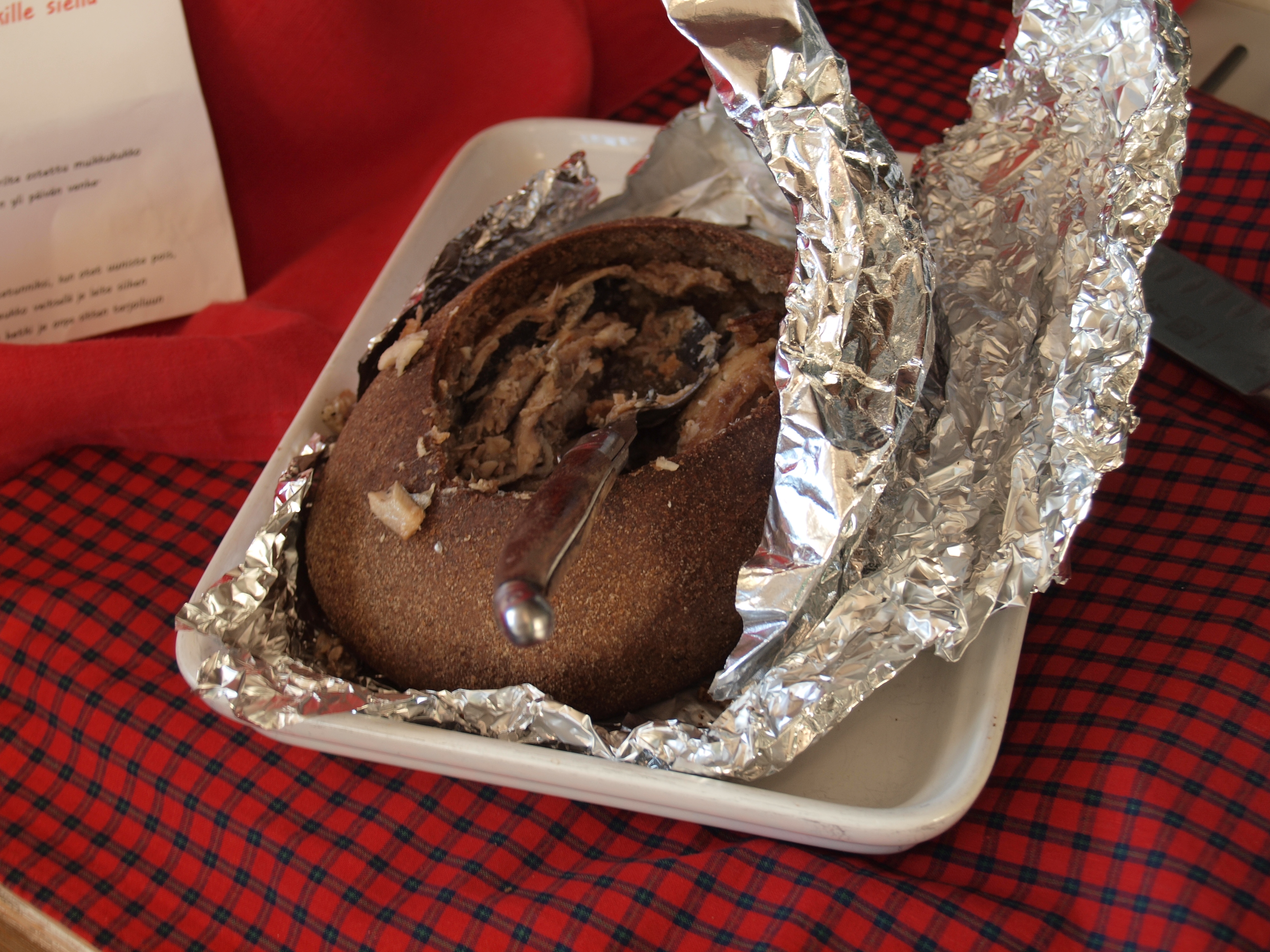 A traditional Finnish kalakukko, made in Savonia, Finland, bought in Helsinki, Finland, prepared to be eaten in Colomars, Alpes-Maritimes, France.